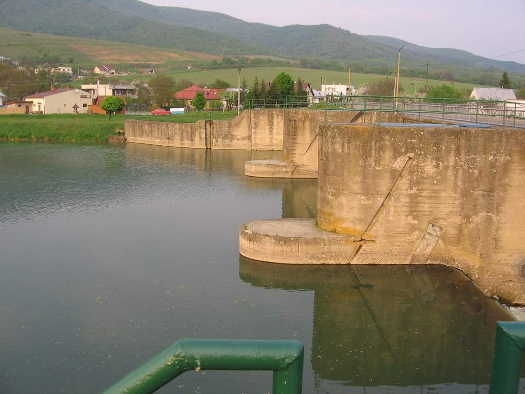 Bridge on river Laborec at Strazske.